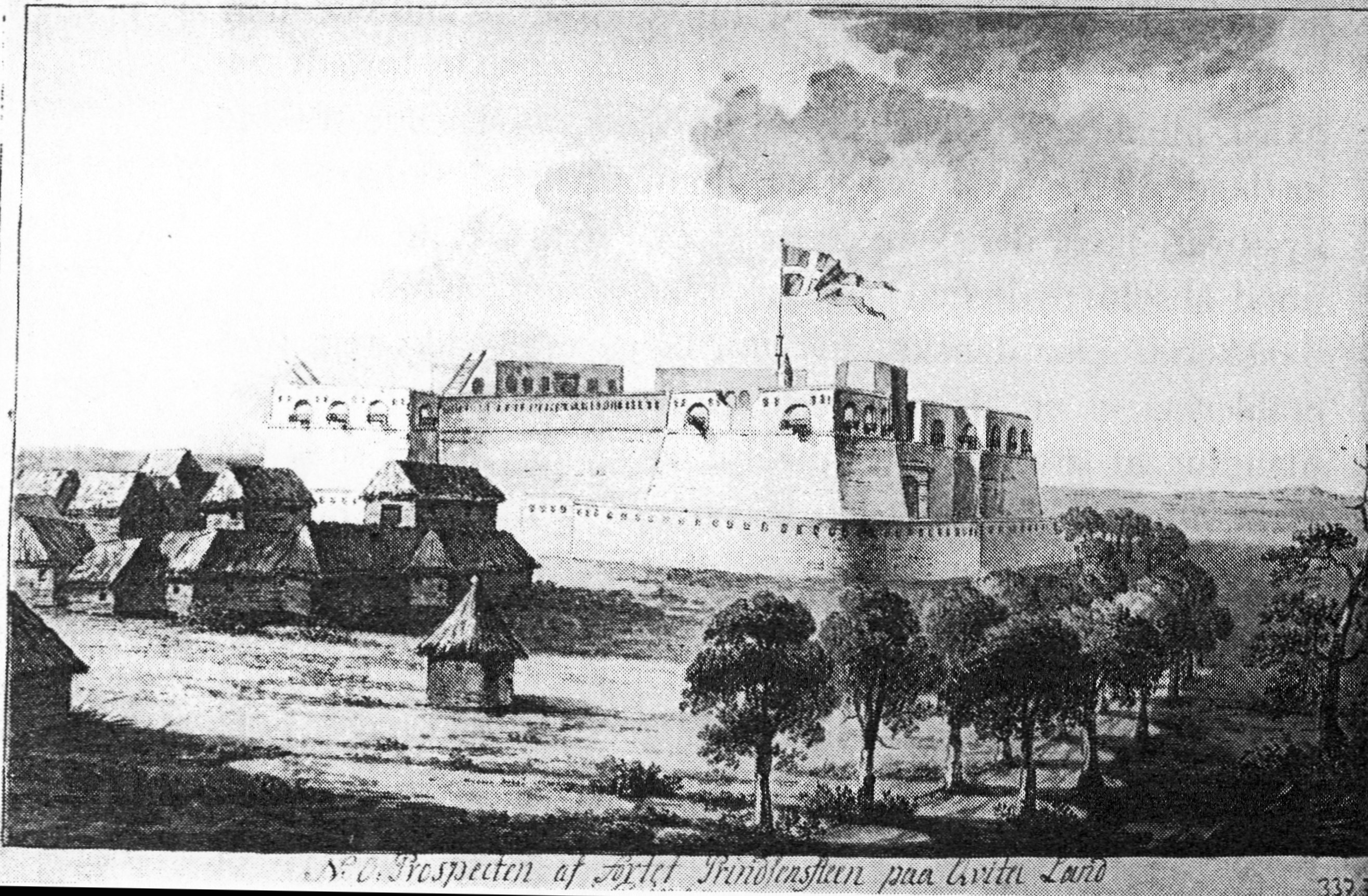 The North-Eastern view of the Danish fort Prindsensteen at Keta (today Ghana). The foundation stone for the fort was laid on 22 June 1784 by Governor Jens Adolf Kjöge. The fort was in Danish possession until 1850, then until the independence of Ghana it was in British possession.